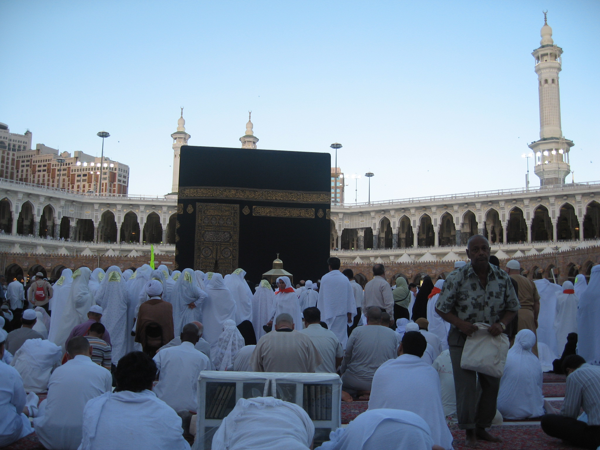 Pray in front of Kaaba Mecca